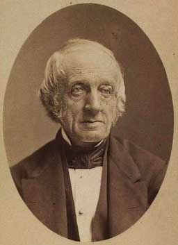 Christian Rønnenkamp (1785-1867), Danish estate owner